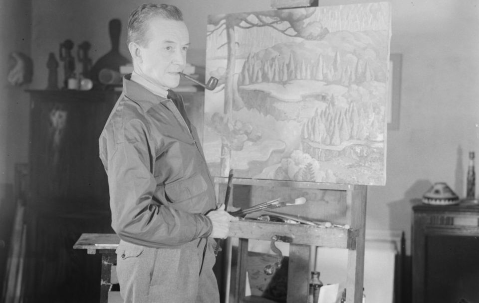 We see Edwin C. Holgate painter in his studio located at 3535 Lorne Avenue in Montreal. Standing in front of his easel, he painted a landscape.